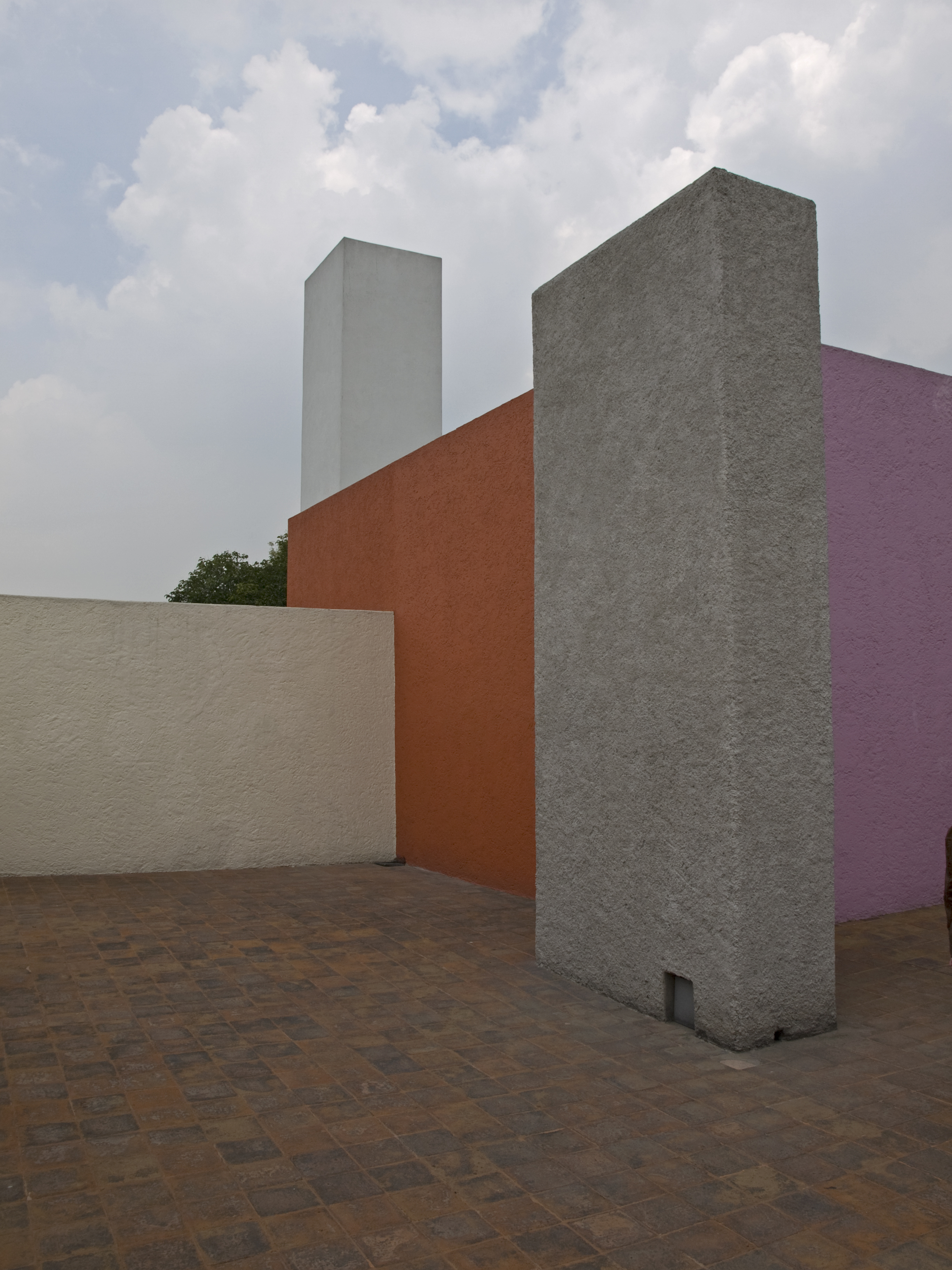 Luis Barragán House and Studio, the roof patio